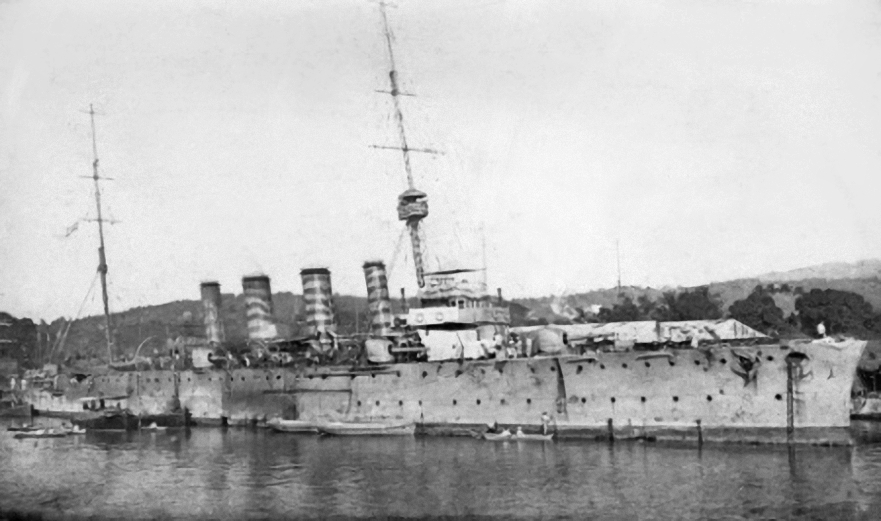 The light cruiser HMAS Sydney lying at anchor in a harbour in the Windward Islands. In January 1915 the Sydney was sent from Bermuda to Brazil in search of the German raider Kron-Prinz Wilhelm; she continued the search until late March.